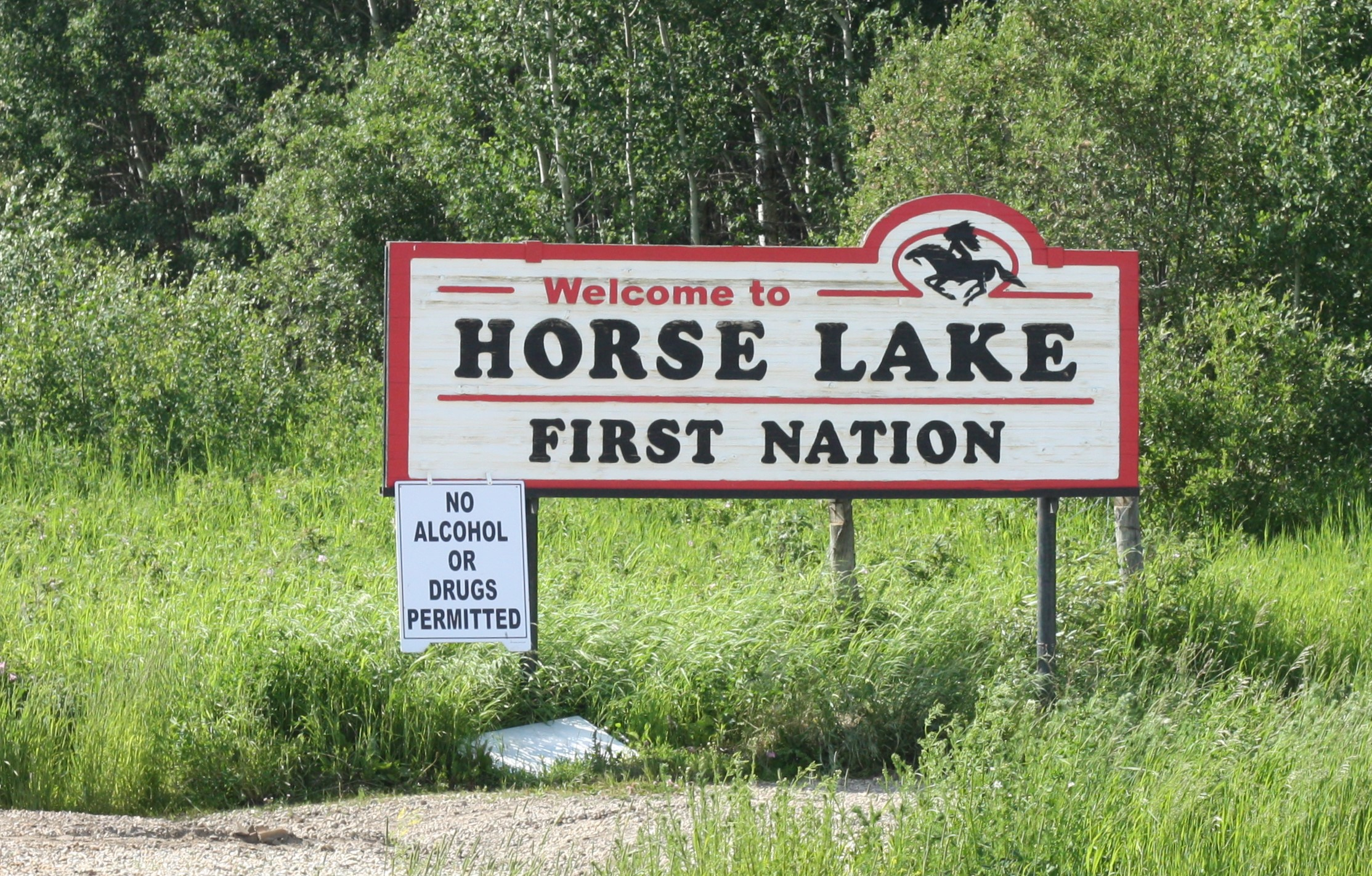 Sign at the edge of Horse Lake First Nation.